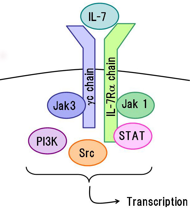 IL-7 bind to IL-7 - common-ganma chain complex.